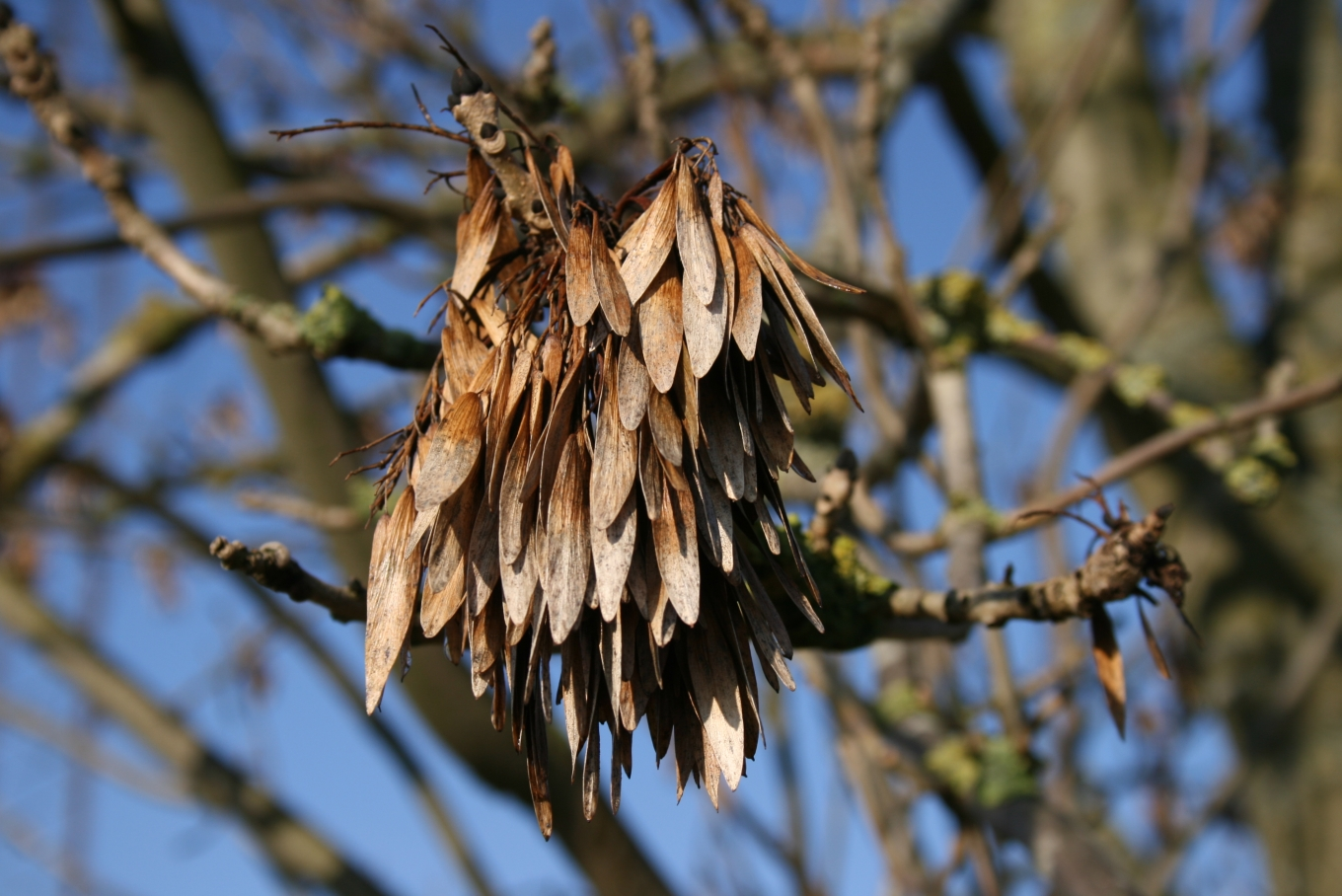 Fraxinus excelsior: Fruits